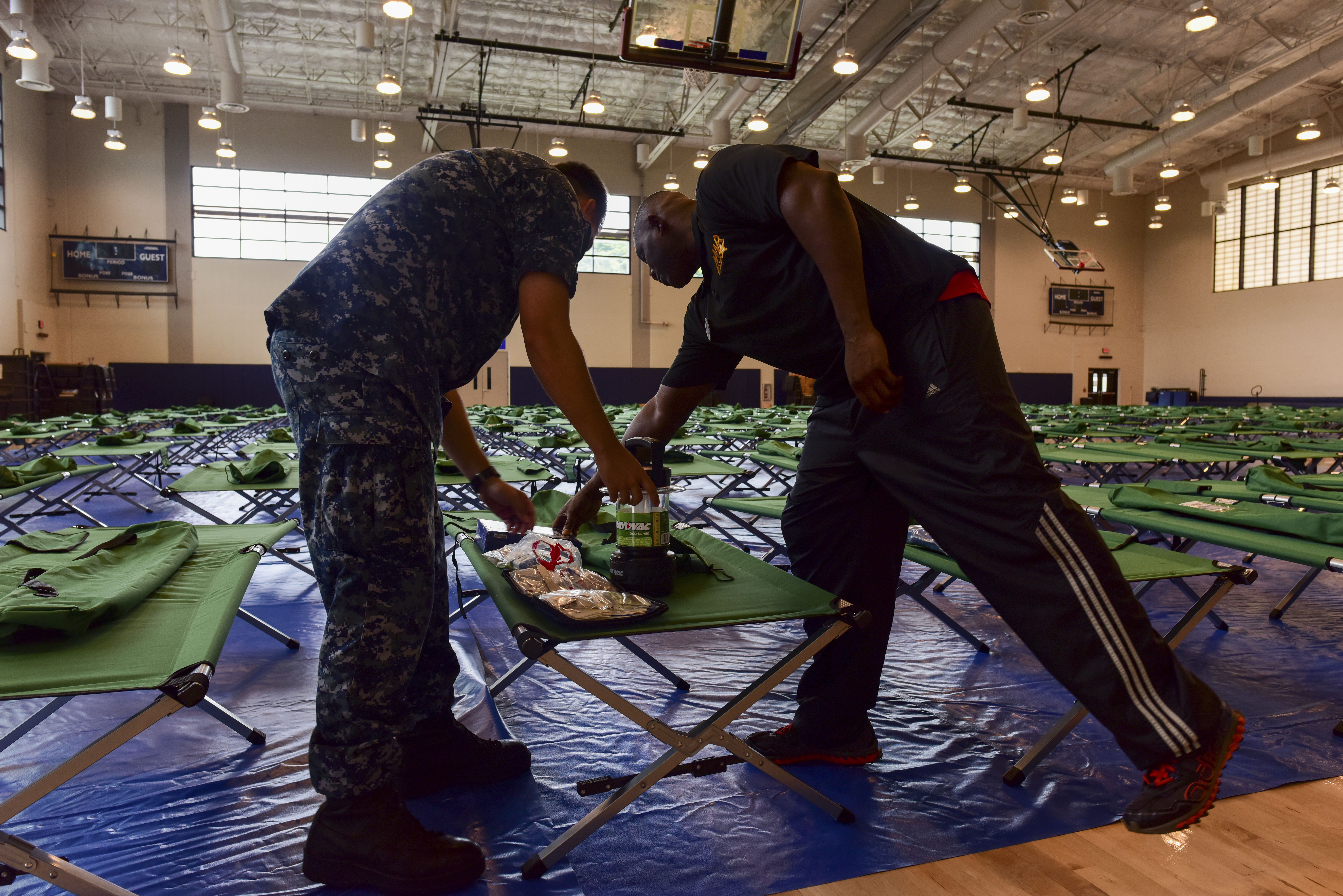 PEARL HARBOR (Aug. 23, 2018) Morale Welfare and Recreation employees and Joint Base Pearl Harbor-Hickam personnel go over emergency preparation kits at the base fitness center as Hurricane Lane approaches Hawaii. In preparation for Category 4 Hurricane Lane, the base is currently at Tropical Cyclone Condition of Readiness (TCCOR) 3, indicating that destructive and sustained winds of 50 knots or greater are possible within 48 hours as of 11 a.m. Hawaii Standard Time. (U.S. Navy photo by Mass Communication Specialist 1st Class Corwin M. Colbert/Released) 180823-N-QE566-003